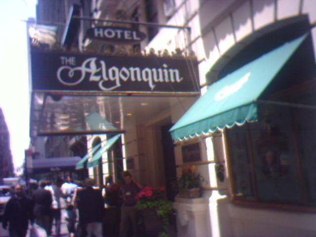 Dorothy Parker woz 'ere. The Blue Bar in this hotel is very chill.